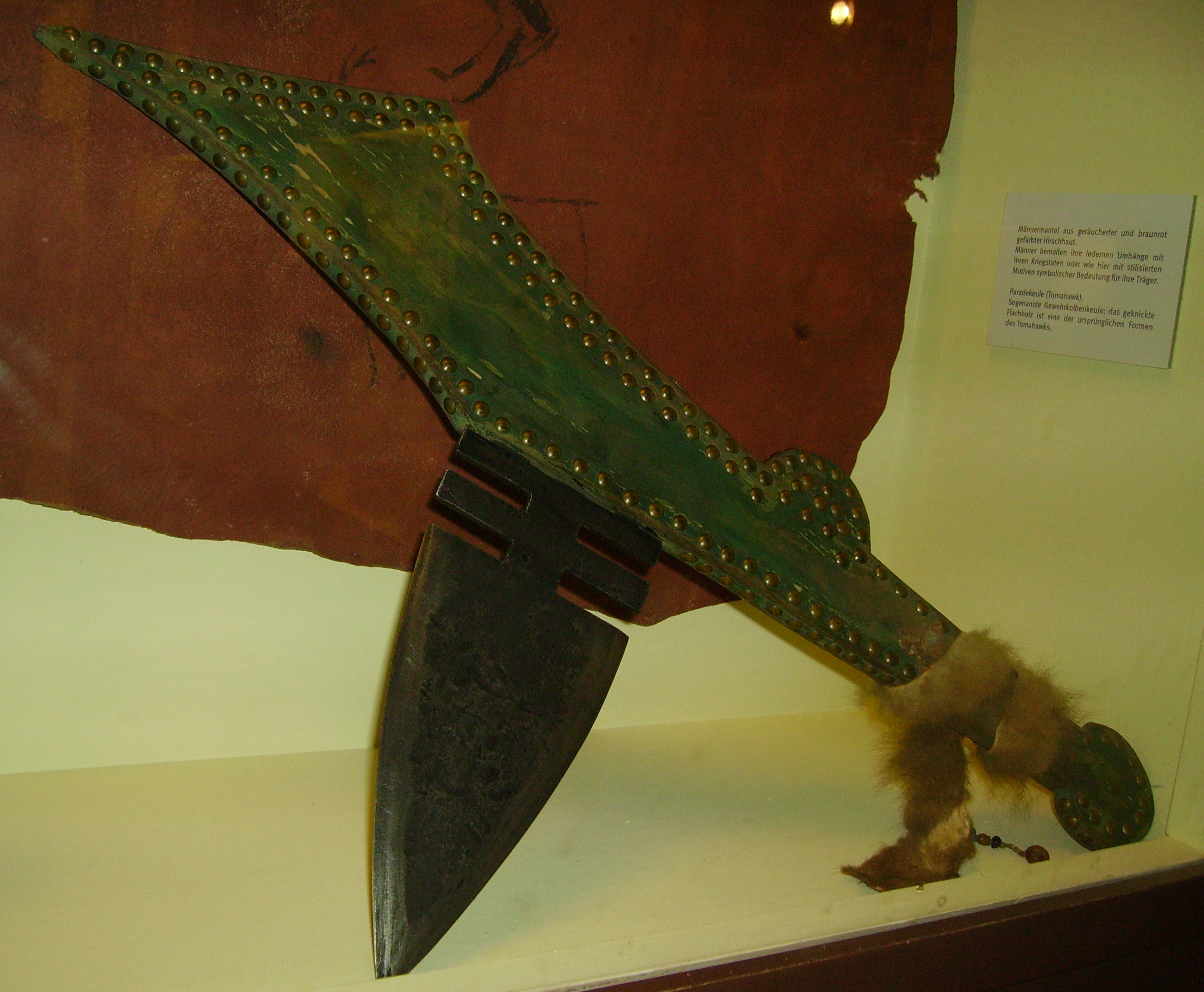 Initial Tomahawk